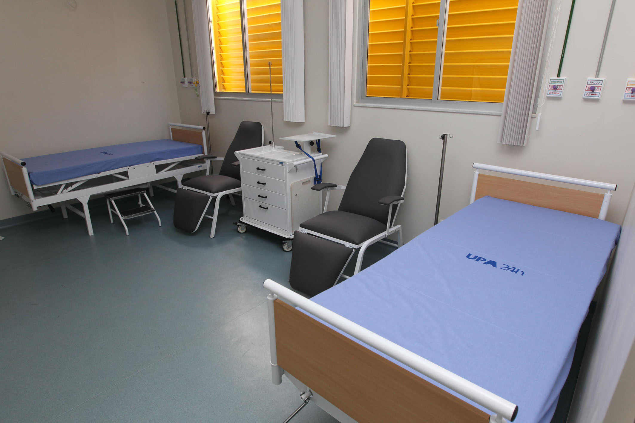 Governador Jaques Wagner inaugura Unidade de Pronto Atendimento (UPA) em Bom Jesus da Lapa Na foto: Foto: Manu Dias/AGECOM